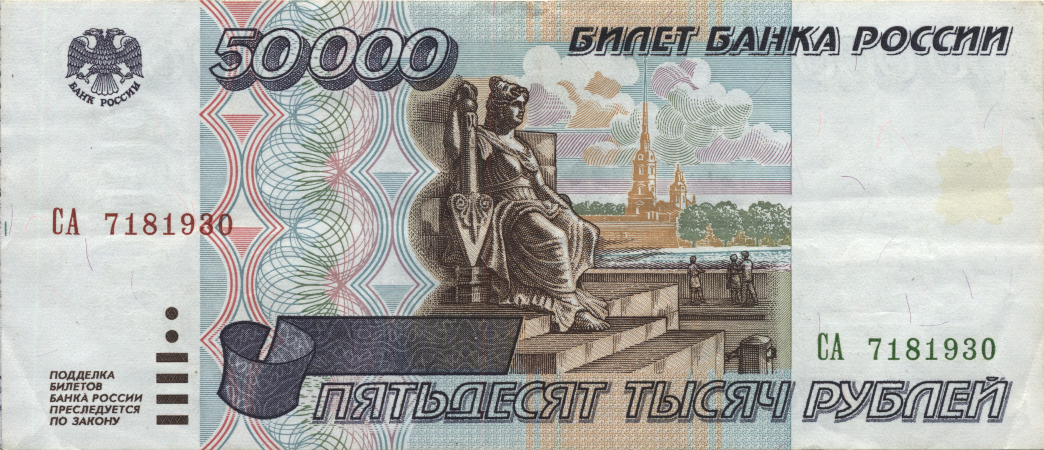 Russian banknote. 50 000 rubles. Version of 1995 year. Россия. Front